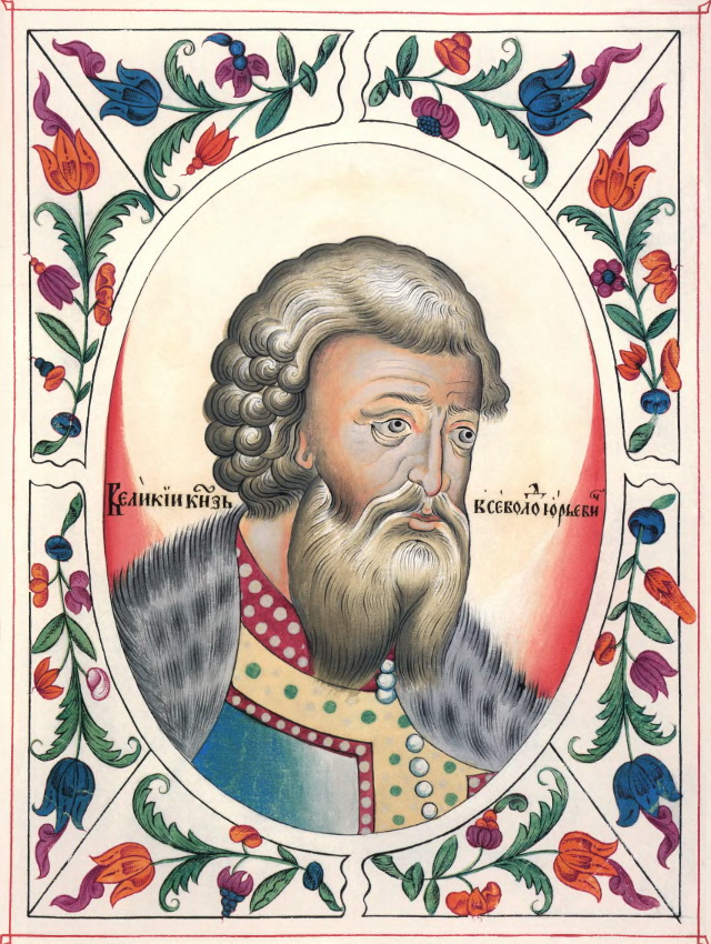 Vsevolod III, Grand Prince of Kiev and Grand Duke of Vladimir